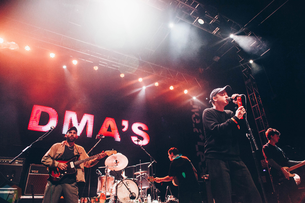 dma's concert